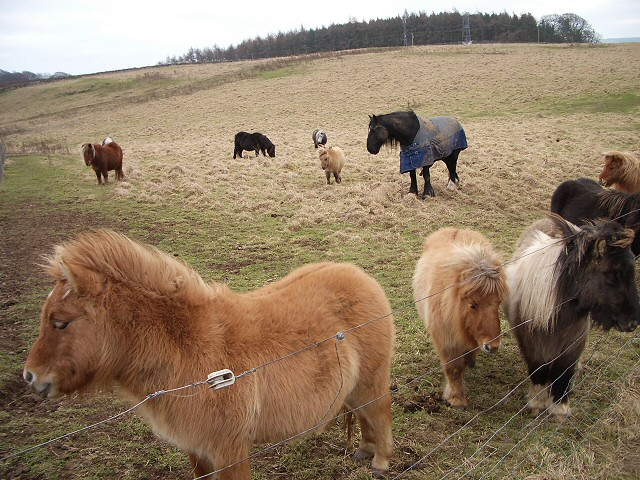 Ponies on Pans Hill. Looking south to the wooded hill top. Pans Hill separates Glen Carse from the Carse of Gowrie to the south.